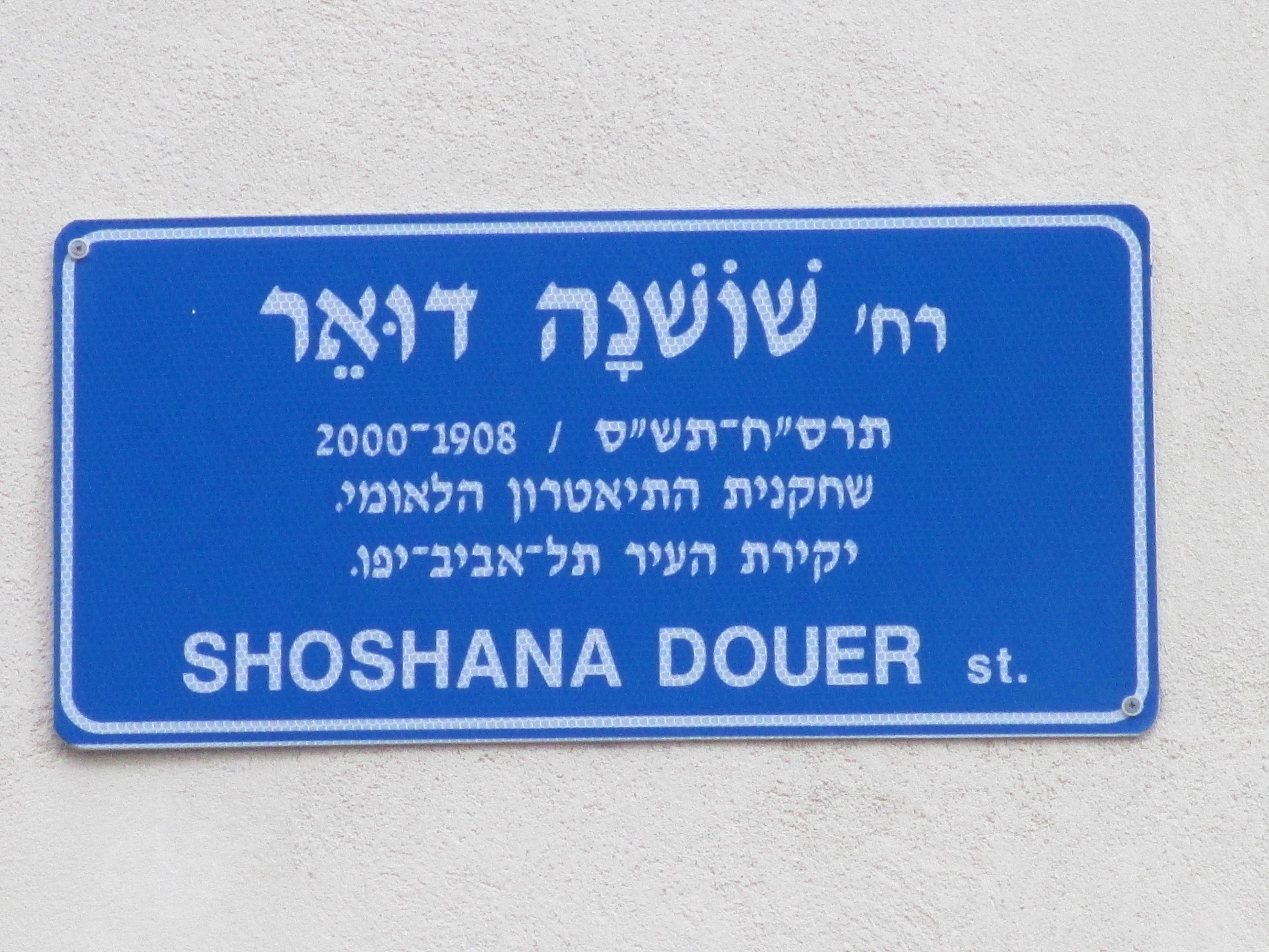 shoshana douer str. in tel aviv שלט רחוב שושנה דואר בתל אביב